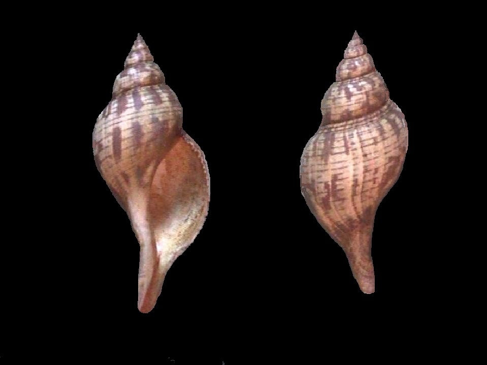 Fasciolaria tulipa Norte de la Isla de Margarita, Nueva Esparta, Venezuela